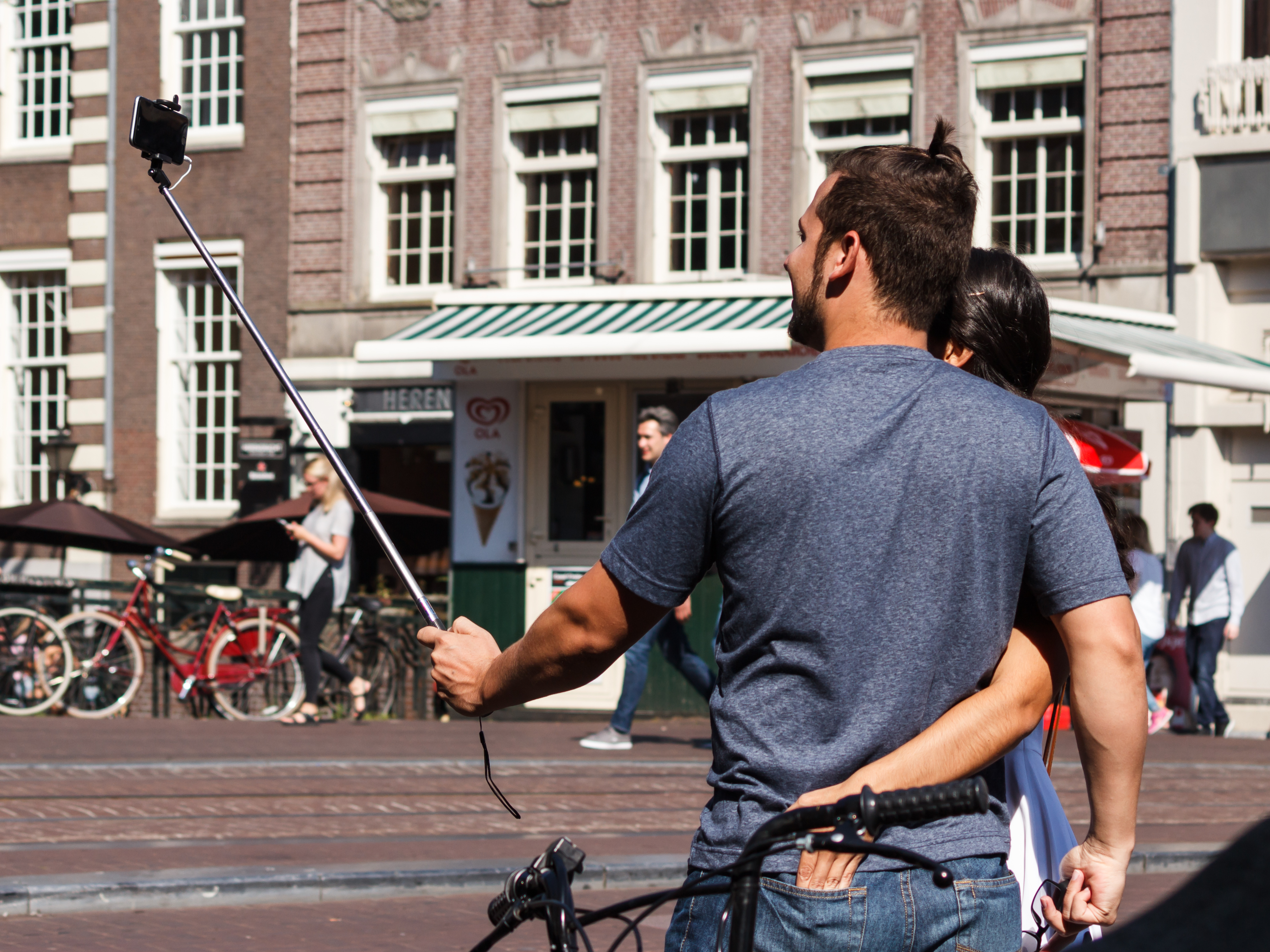 Couple taking a self-portrait using a selfie stick at Konigssluis, Amsterdam, the Netherlands